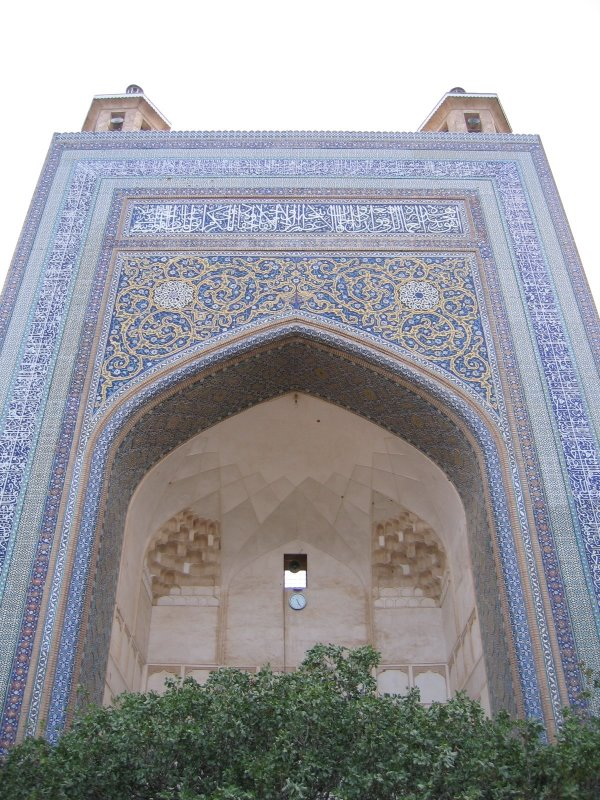 Sheikh Ahmad Jami Tomb and Mosque at Torbat Jam City